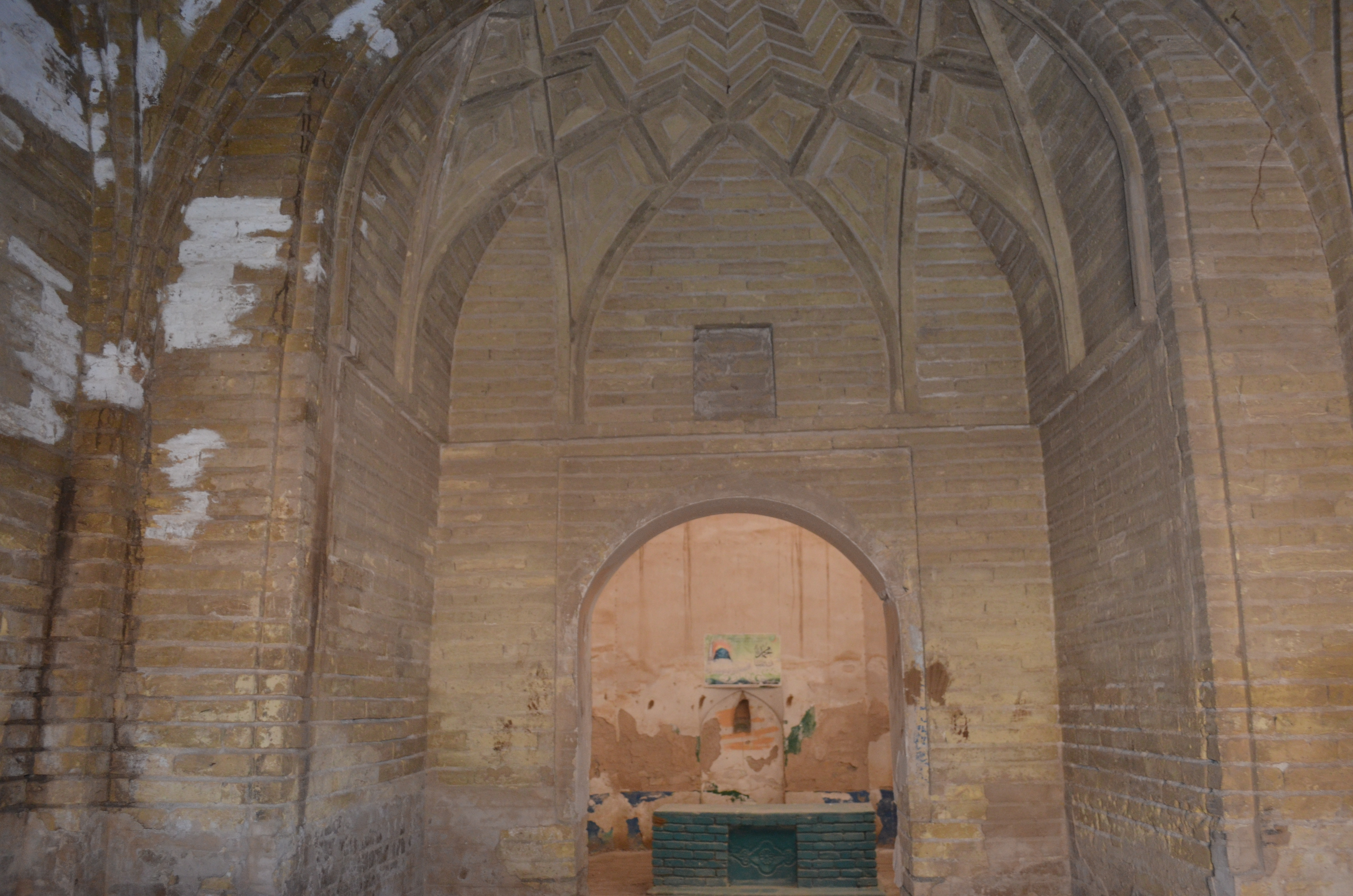 inside Zumurrud Khatun Tomb (1202 CE.), in cemetery at Baghdad